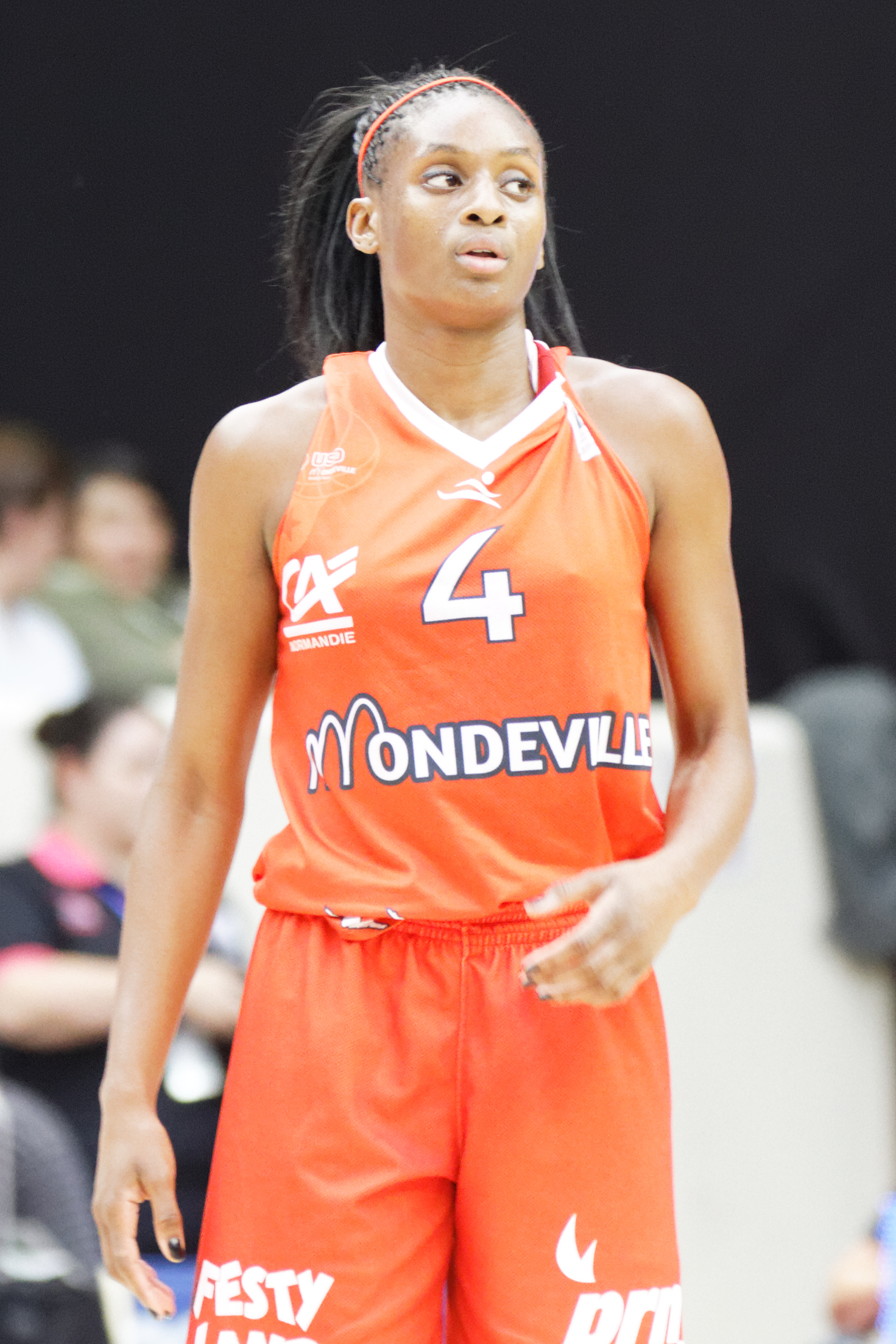 Open LFB, Toulouse-Mondeville, October 5th, 2013.